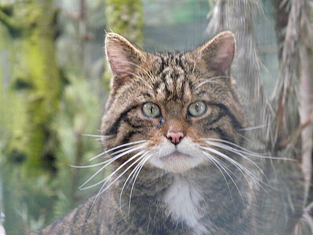 Wildcat at the Highland Wildlife Park